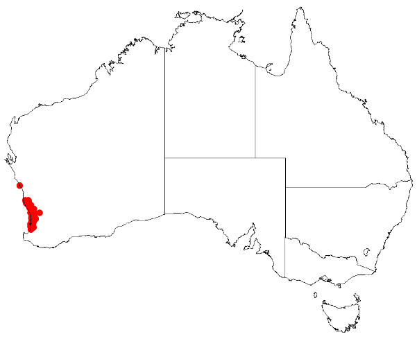 Conostylis juncea occurrence data from Australasian Virtual Herbarium downloaded 12 May 2017